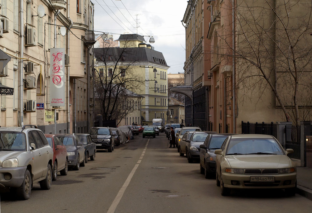 Sivtsev Vrazhek, view from Denezhny Lane eastward, Moscow